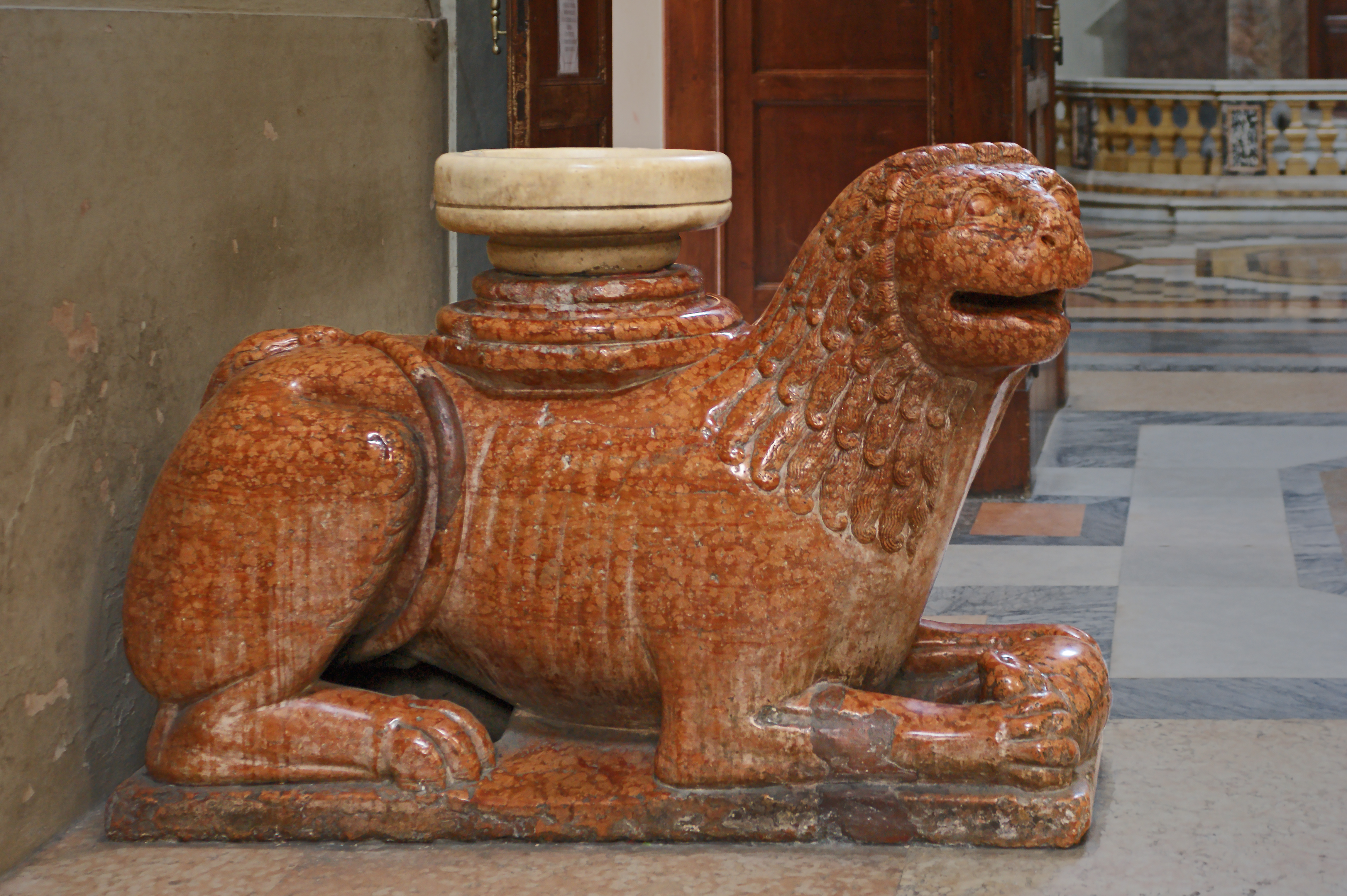 Bologna Cathedral - lion stoup in Red Verona marble